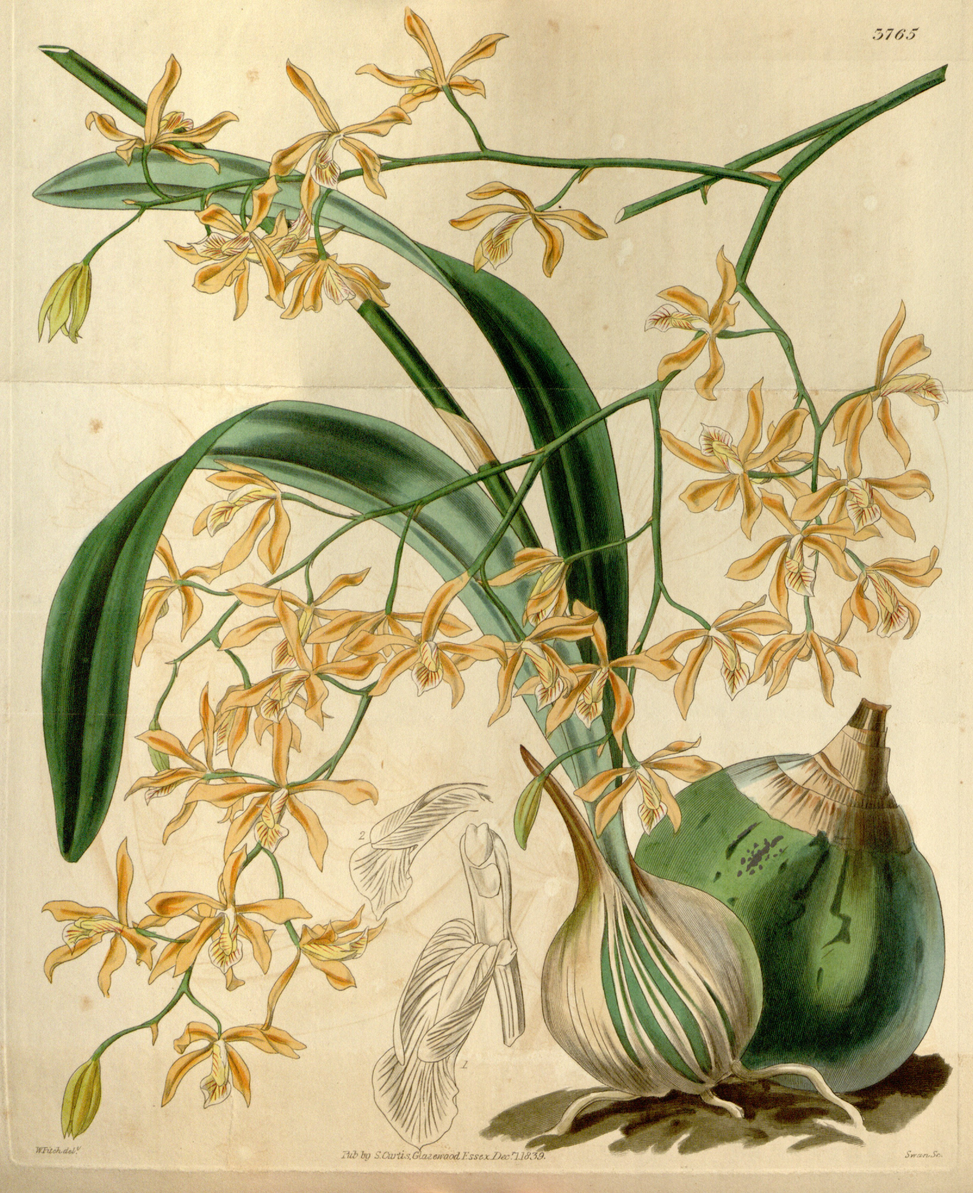 Illustration of Encyclia candollei (as syn. Epidendrum cepiforme)